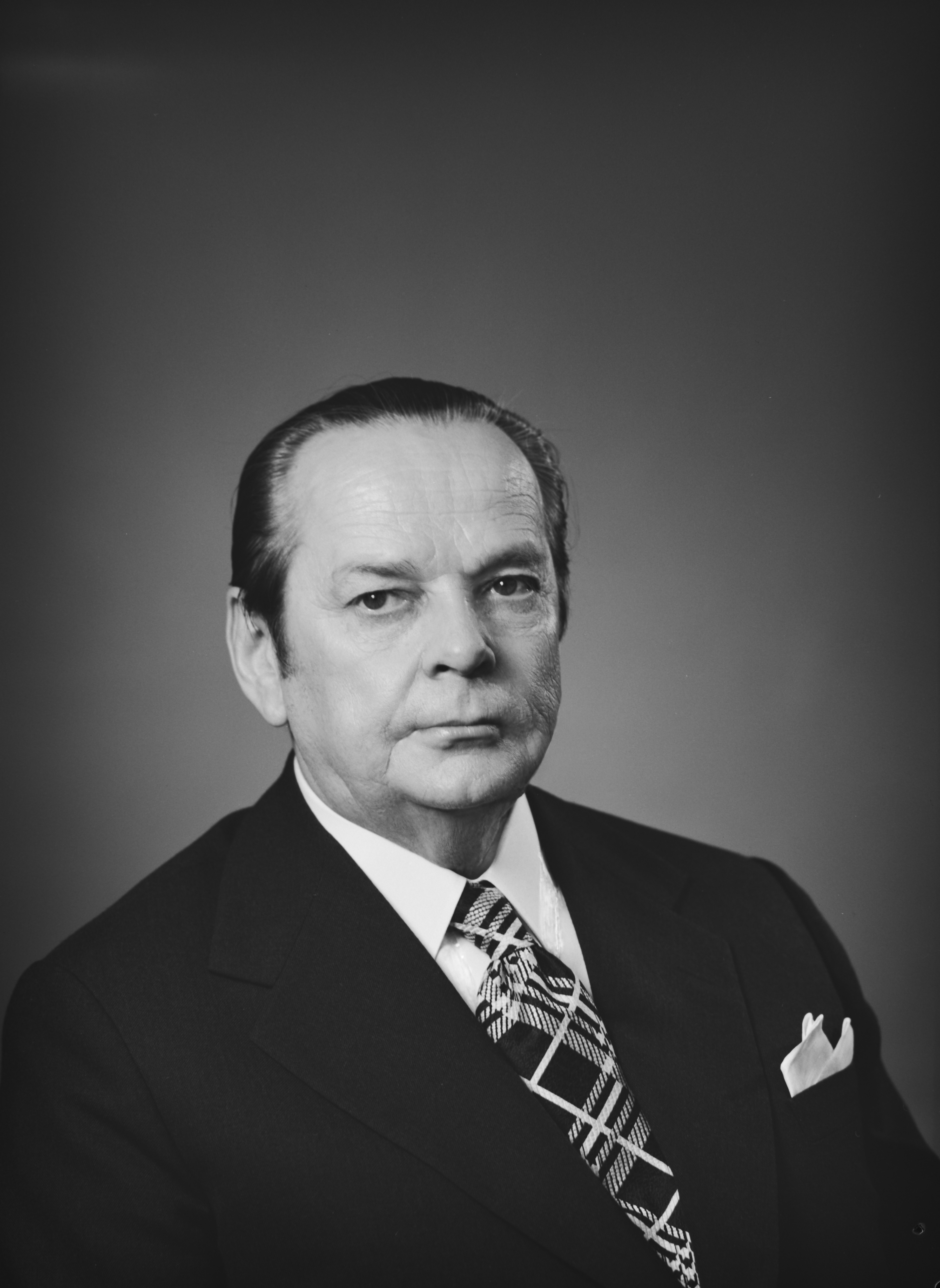 Photograph of the Finnish chemist Olli Ant-Wuorinen (1904–1993).